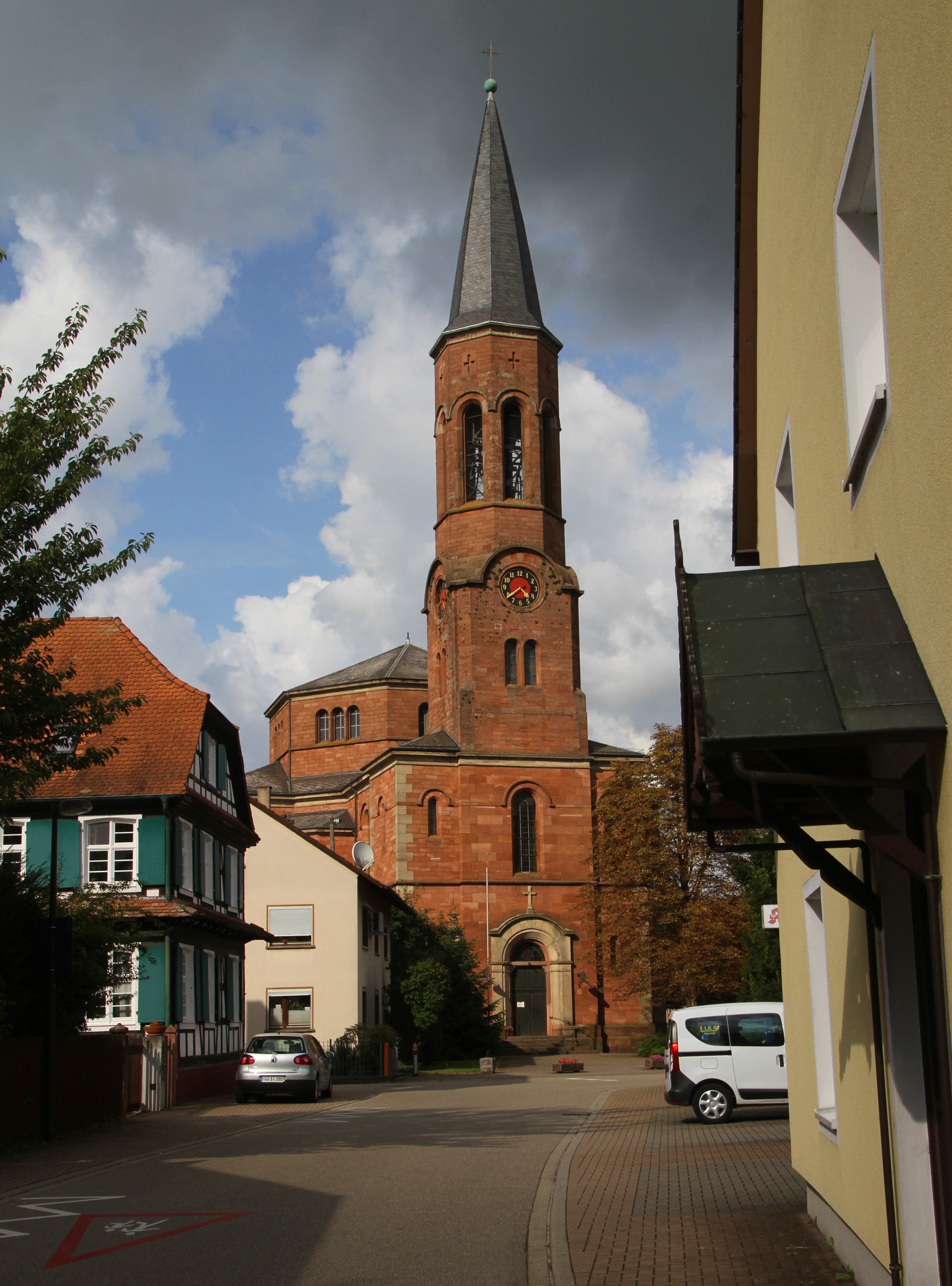 Protestant church in Rheinau-Rheinbischofsheim.